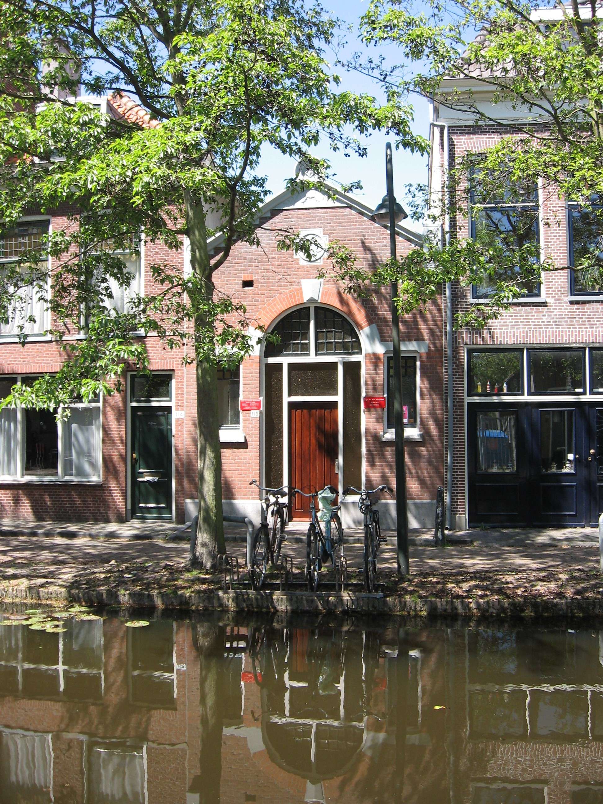 Rietveld 118